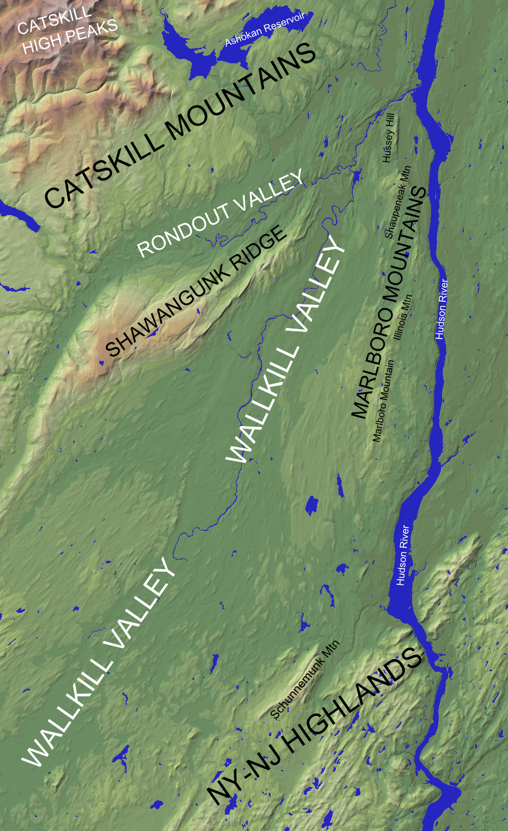 Section of a north-up oriented shaded relief map of the U.S. state of New York (from the United States Geological Survey) showing the extent of the northern Wallkill Valley. Geographic features have been labeled